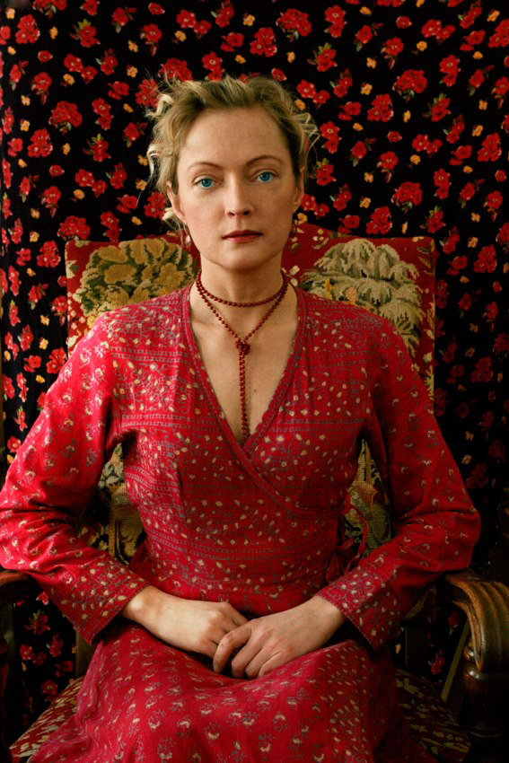 Self portrait by artist Marge Nelk